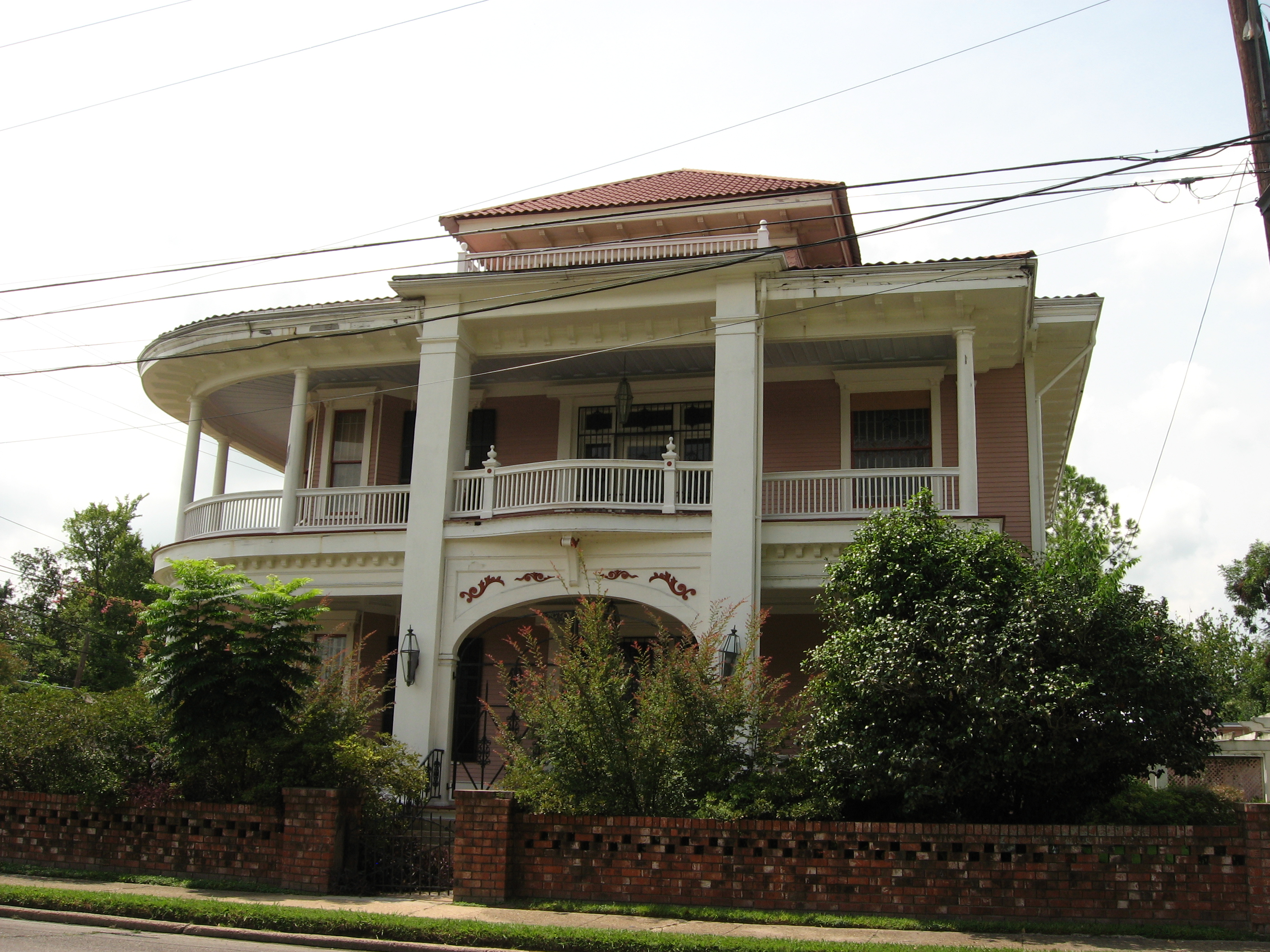 Plaquemine is a city in and the parish seat of Iberville Parish, Louisiana, United States. A beautiful house.